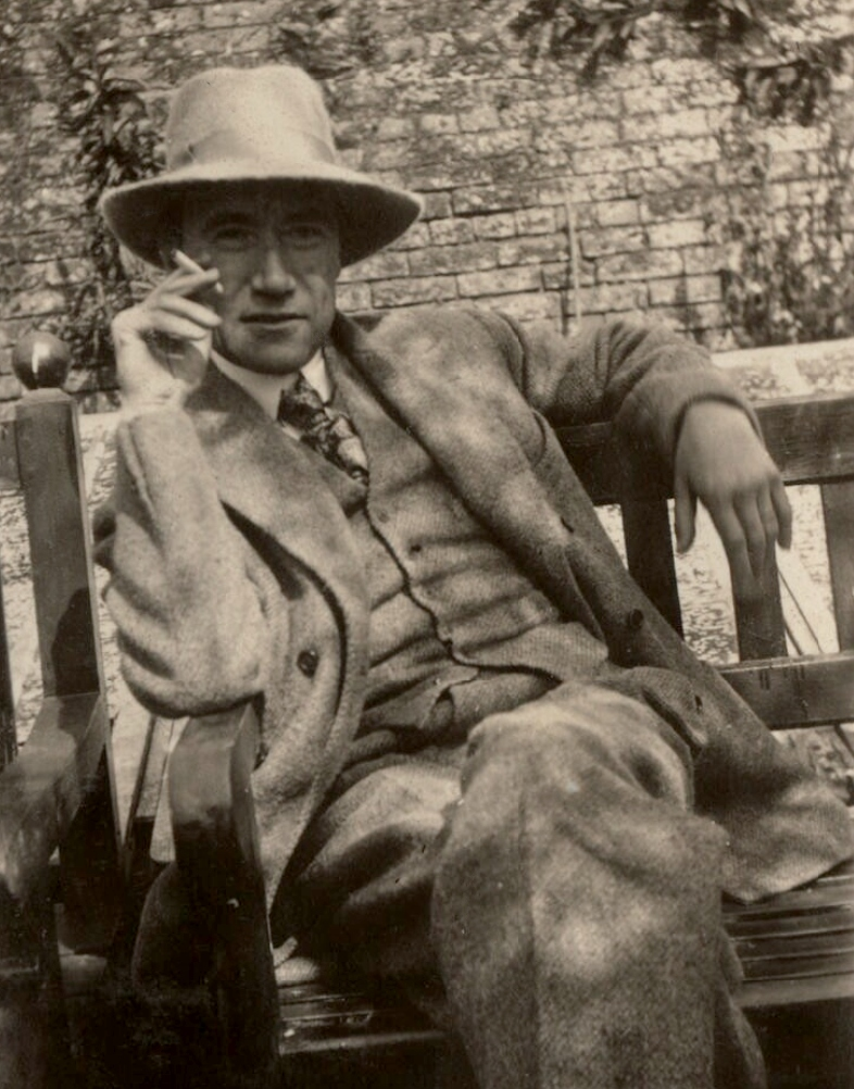 Photograph of André Gide